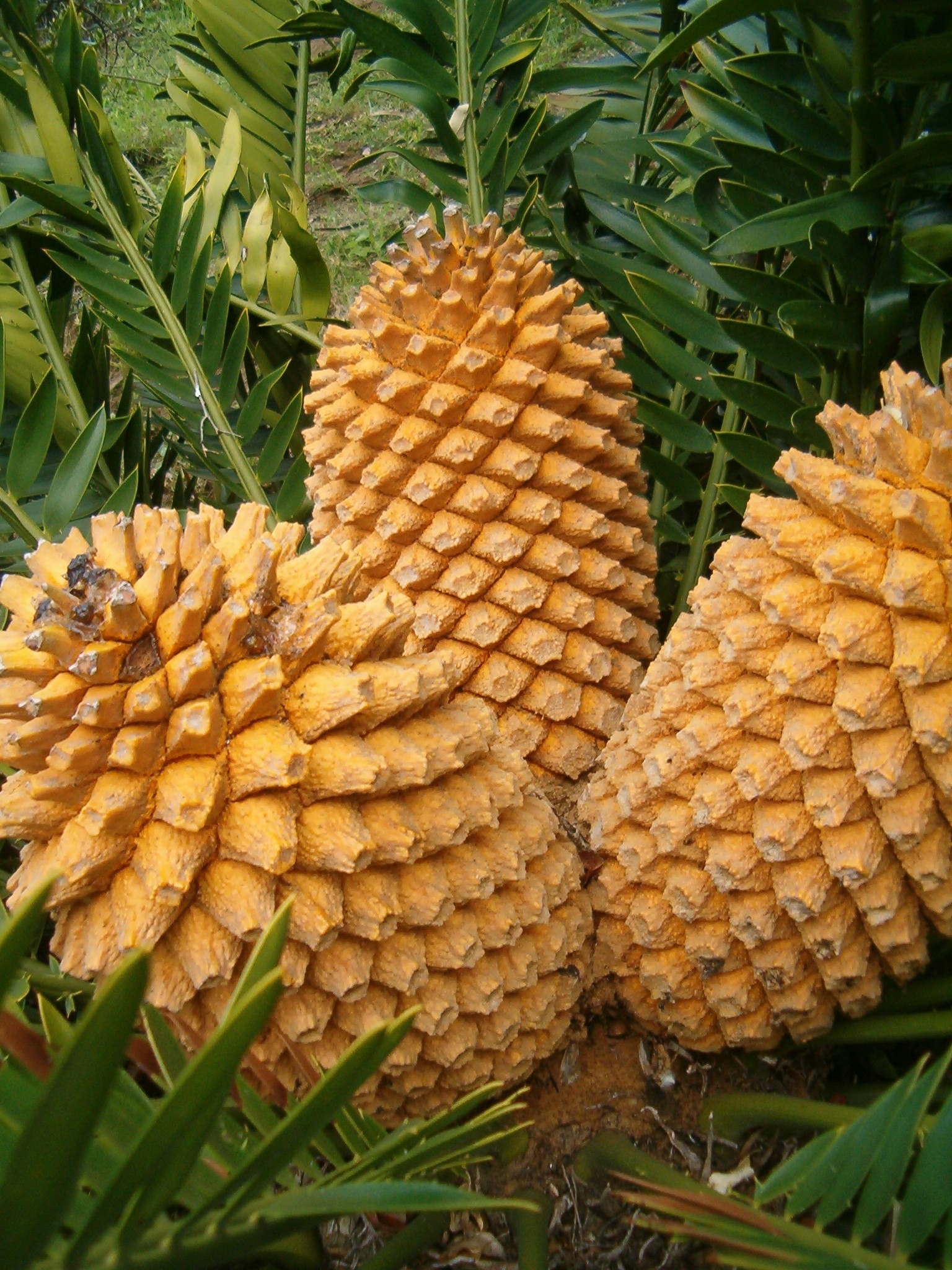 At Kirstenbosch National Botanical Gardens Genus: Encephalartos